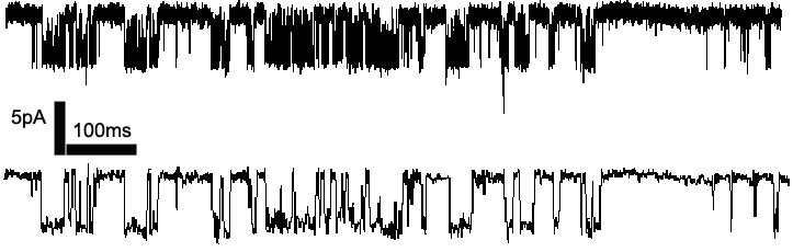 Patch clamp recordings of a glycine receptor protein complex (a chloride specific ion channel) showing currents in open and closed state. Patch-Clamp Ableitung eines Glyzin Rezeptor (ein Chlorid-spezifischer Ionenkanal zeigt Ströme im offenen und geschlossenen Zustand. Електричний струм через одиничний гліциновий рецептор, записаний в outside-out mode задопомогою voltage-clamp